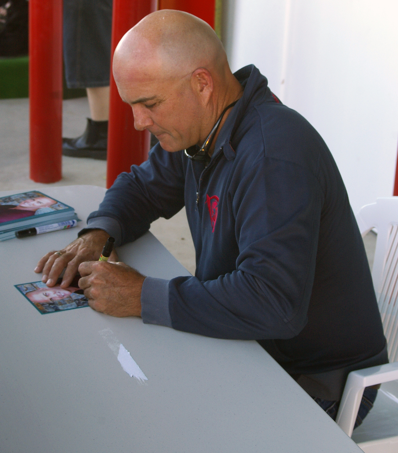 James Blundell autographing at Bunnings Warehouse Wagga Wagga.